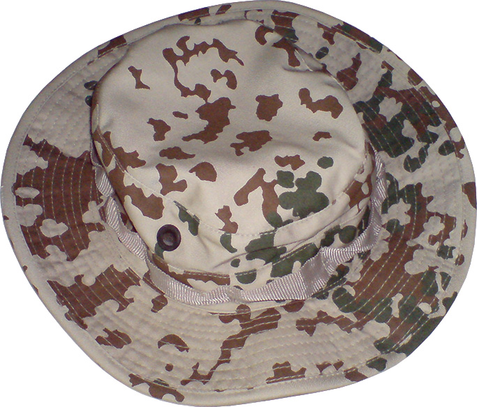 boonie hat in 3-color flecktarn